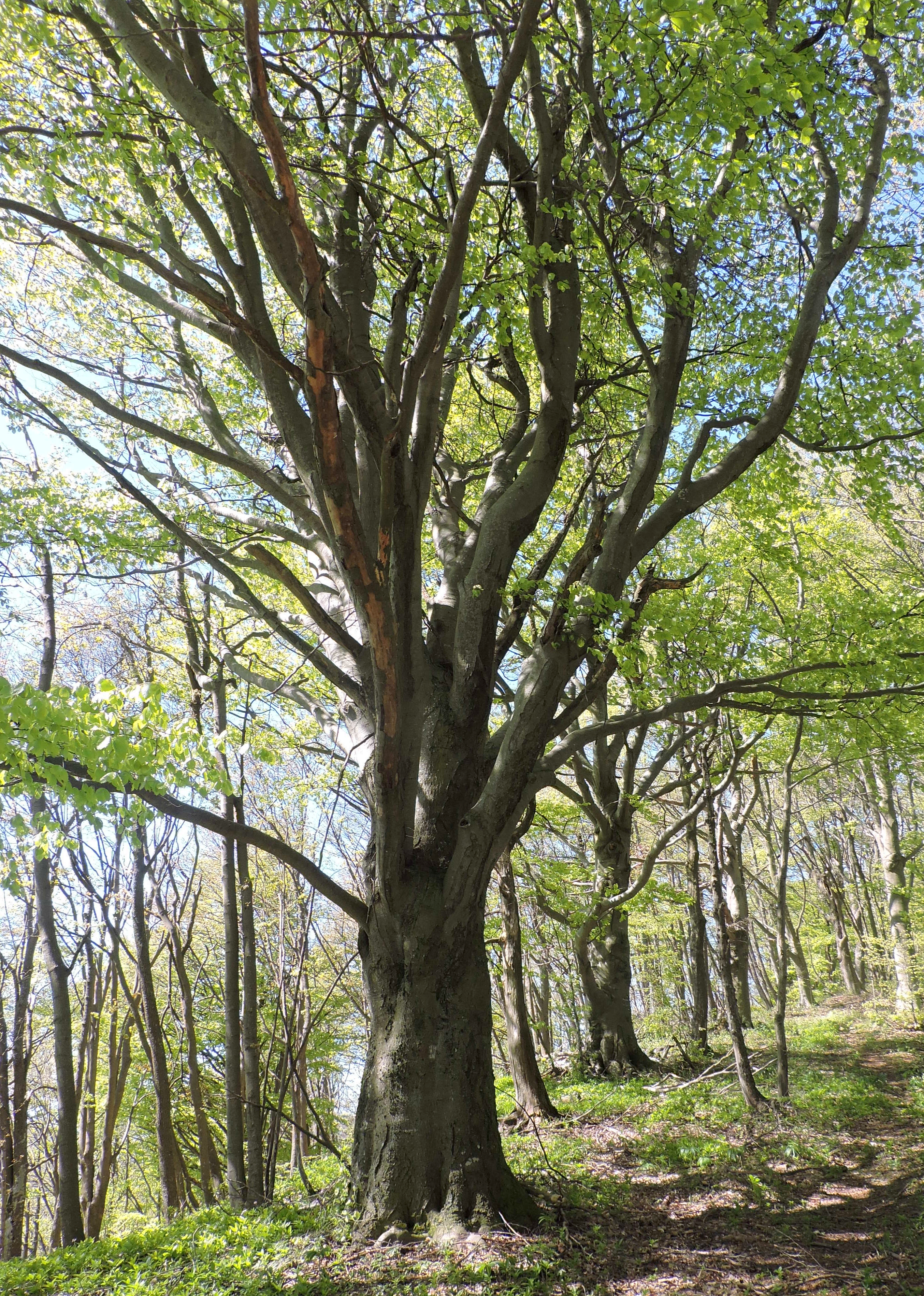 An old beech tree on Monte Sotta (Ligurian Alps, Italy)